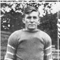 Lee Tolley, Sewanee Tigers quarterback c. 1913